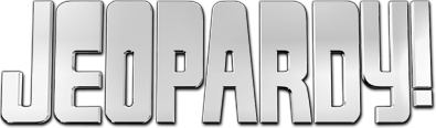 Logo of the TV game show "Jeopardy!"